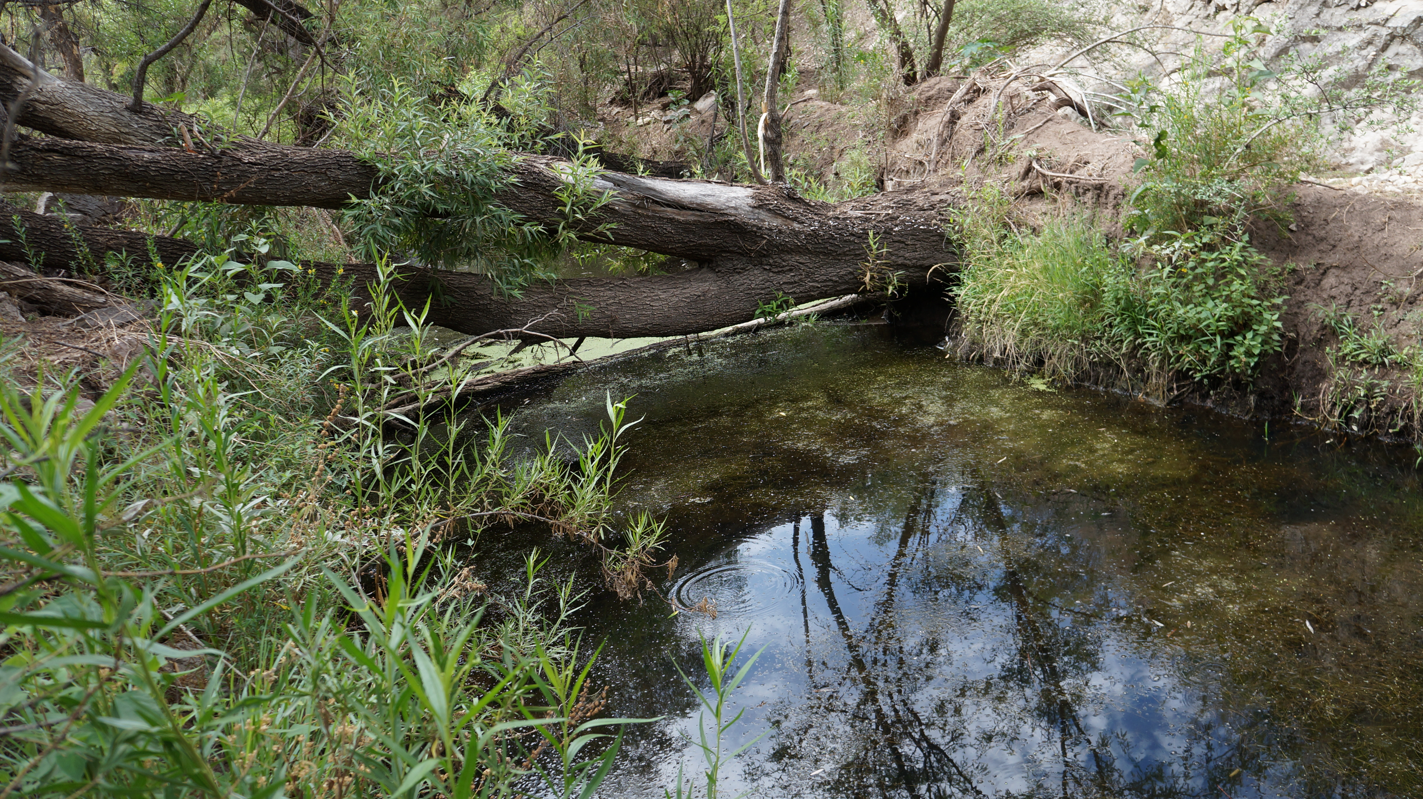 Creek in the north of Jalisco, Mexico.